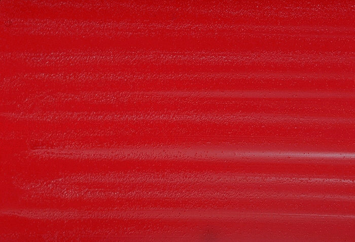 blood agar with culture of Cardiobacterium hominis